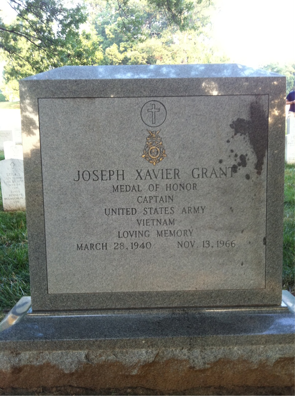 Grave of Joseph Xavier Grant at Arlington National Cemetery